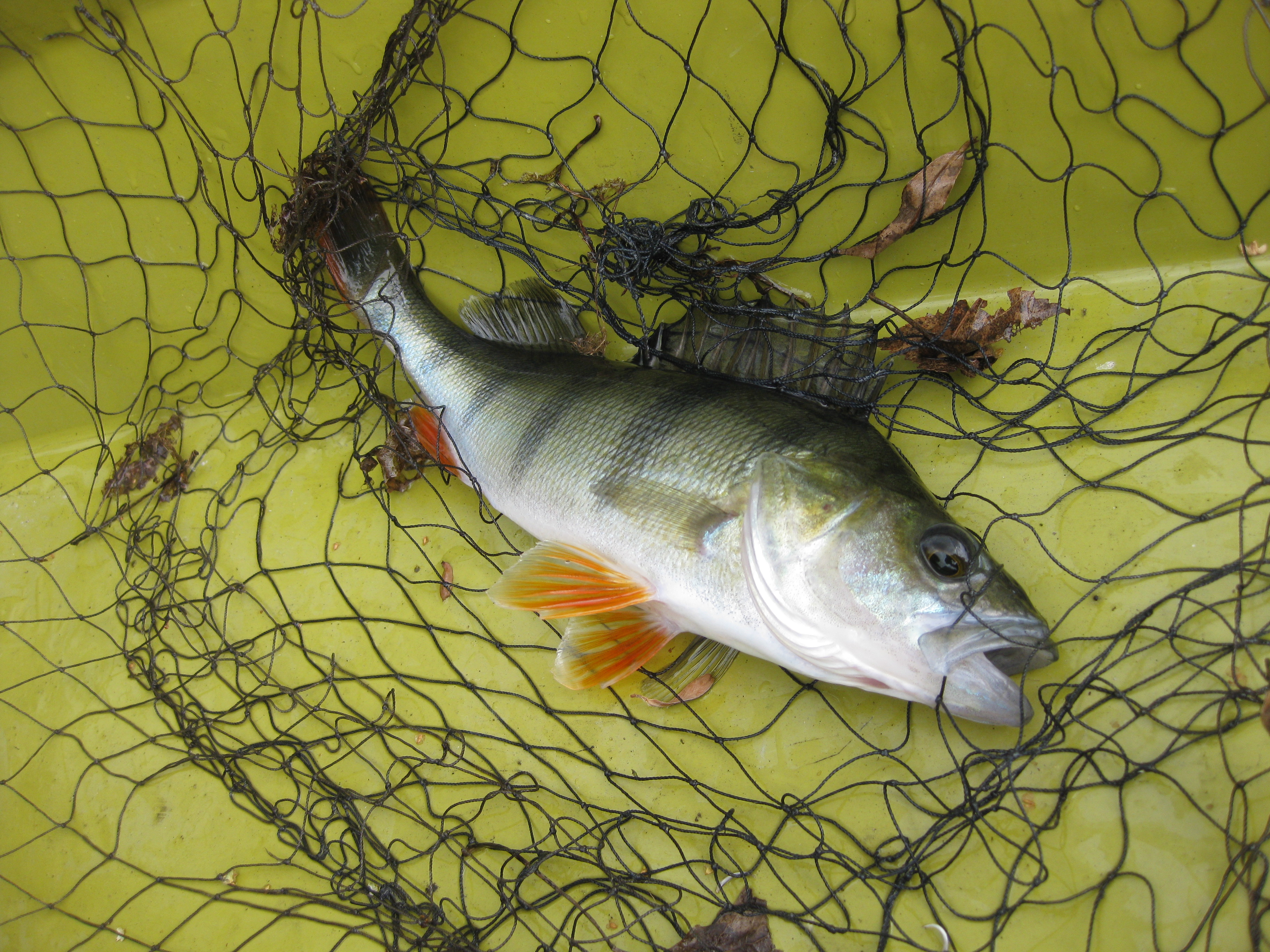 European perch (Perca fluviatilis, Linnaeus, 1758)